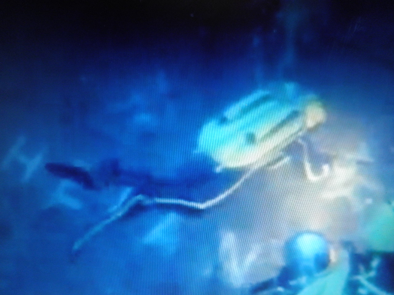 Color photo of divers exploring MS Heian Maru at Truk Lagoon, early 1970s.